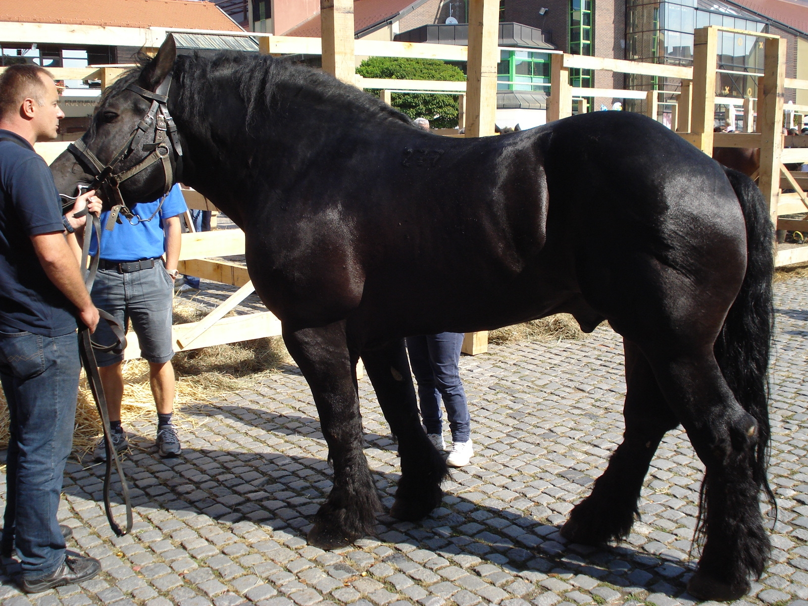 Međimurski konj (Međimurec) = horse breed of Medjimurje, northern Croatia, at an exhibition in Čakovec on September 24th, 2011 - black stallion